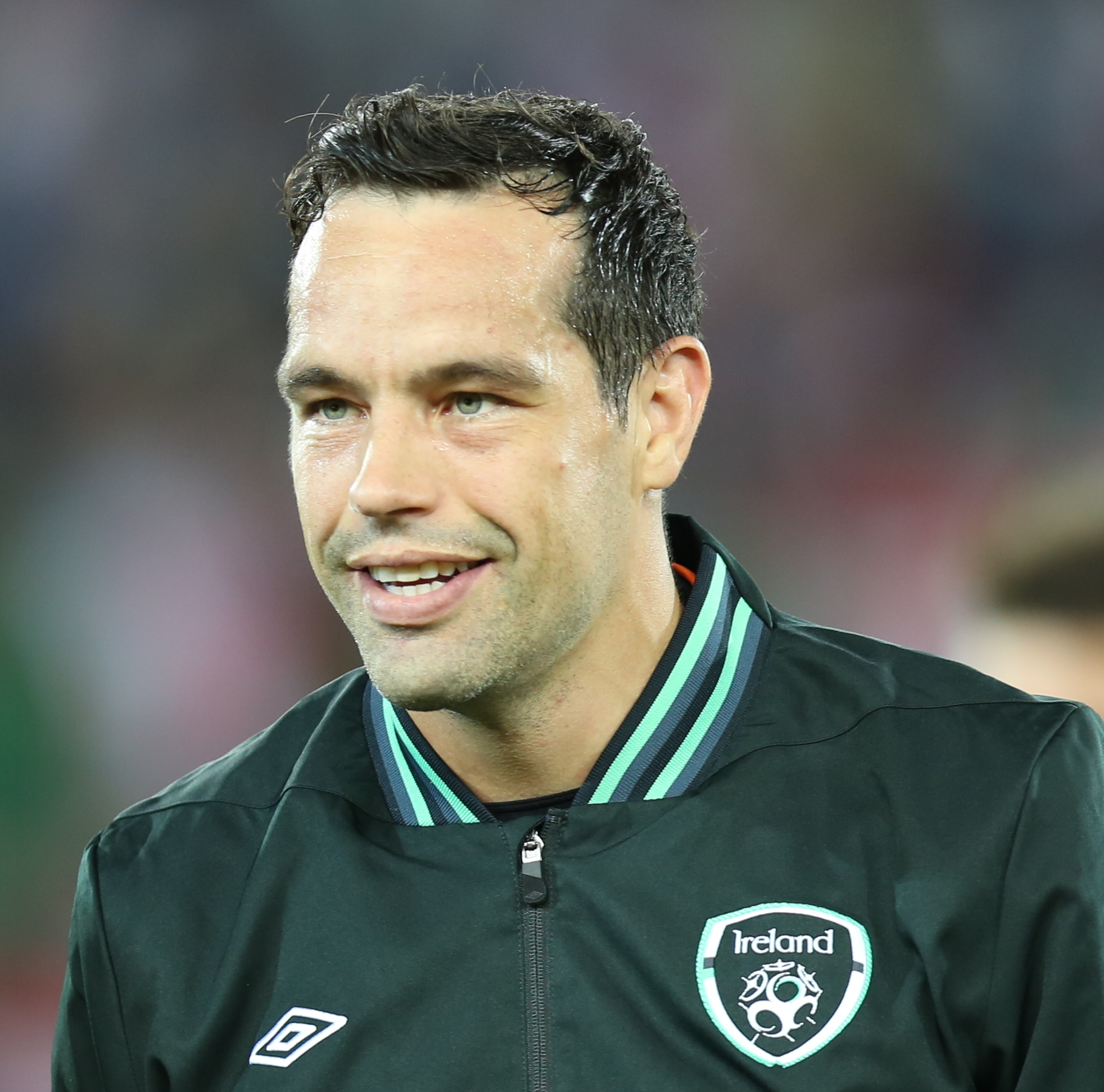 2014 FIFA World Cup qualification (UEFA), Group C: Republic of Ireland national football team at 10. September 2013 before the match against the Austria national football team (0:1) in the Ernst-Happel-Stadion in Vienna. Here: David Forde, irish goalkeeper The making of this work was supported by Wikimedia Austria. For other files made with the support of Wikimedia Austria, please see the category Supported by Wikimedia Österreich.